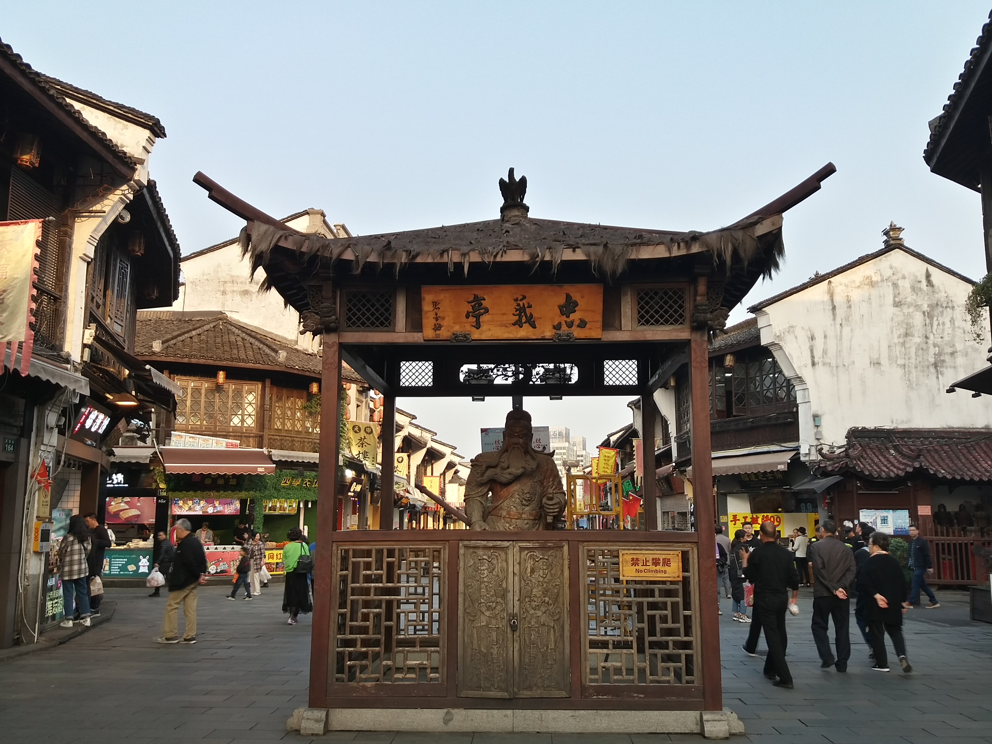 Hefang Street, Hangzhou